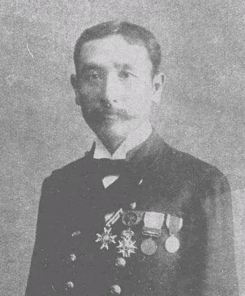 Sotokichi Uryu was a Full Admiral of the Imperial Japanese Navy